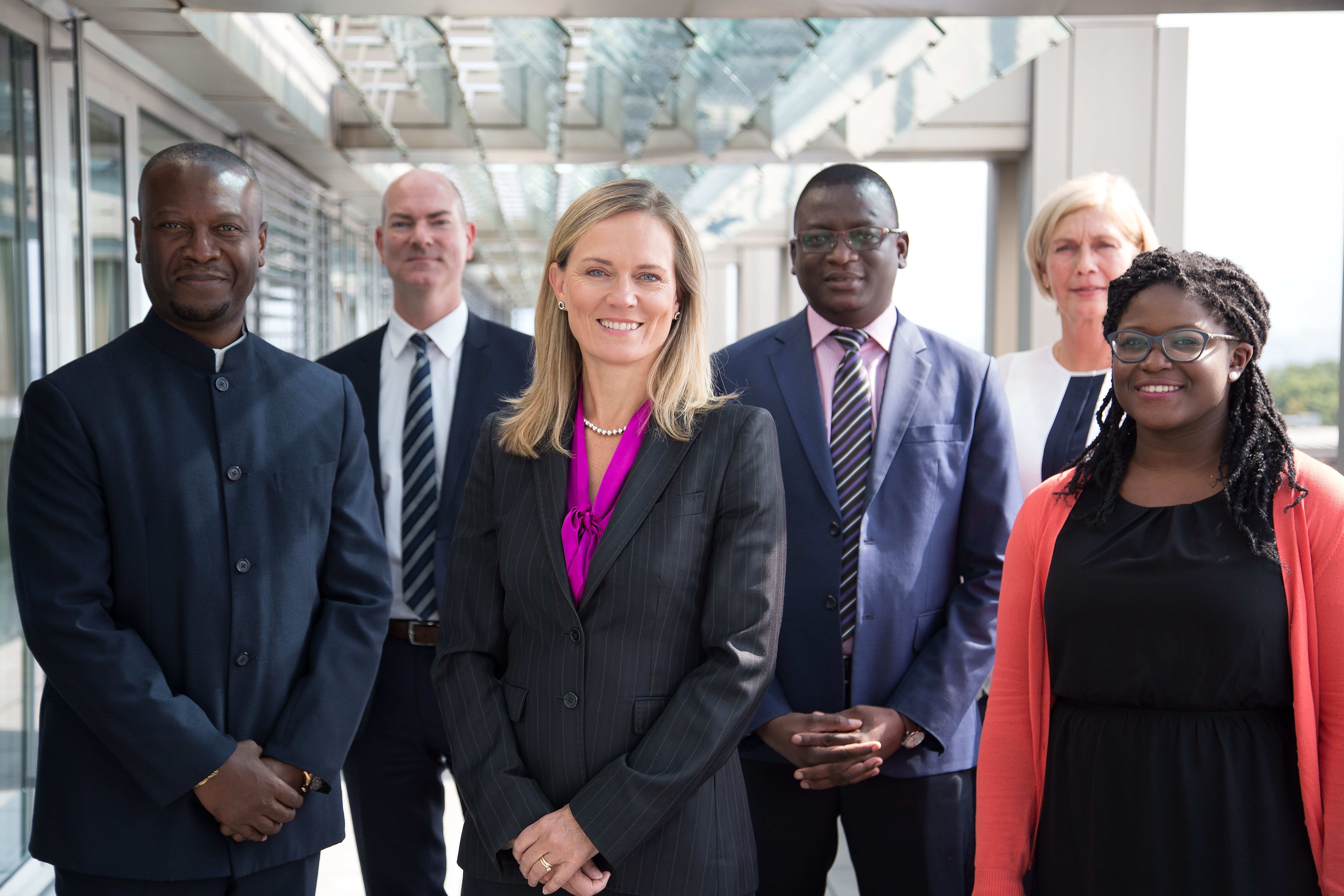 The members of the APP Secretariat team in Geneva